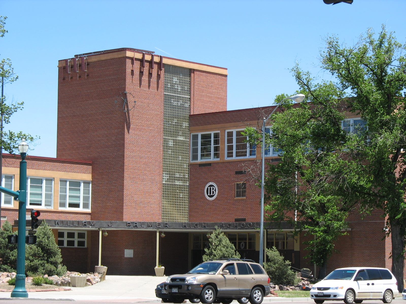 General William J. Palmer High School in Colorado Springs. Well, one of its buildings, anyway - the campus is spread over a few blocks.